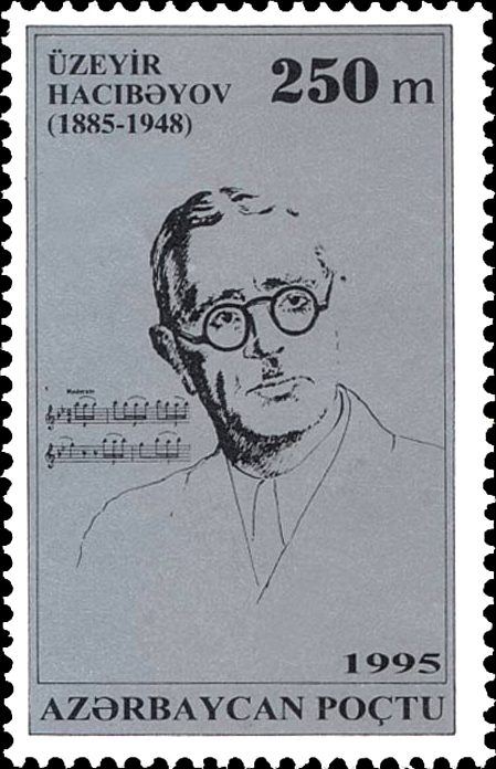 Stamp of Azerbaijan